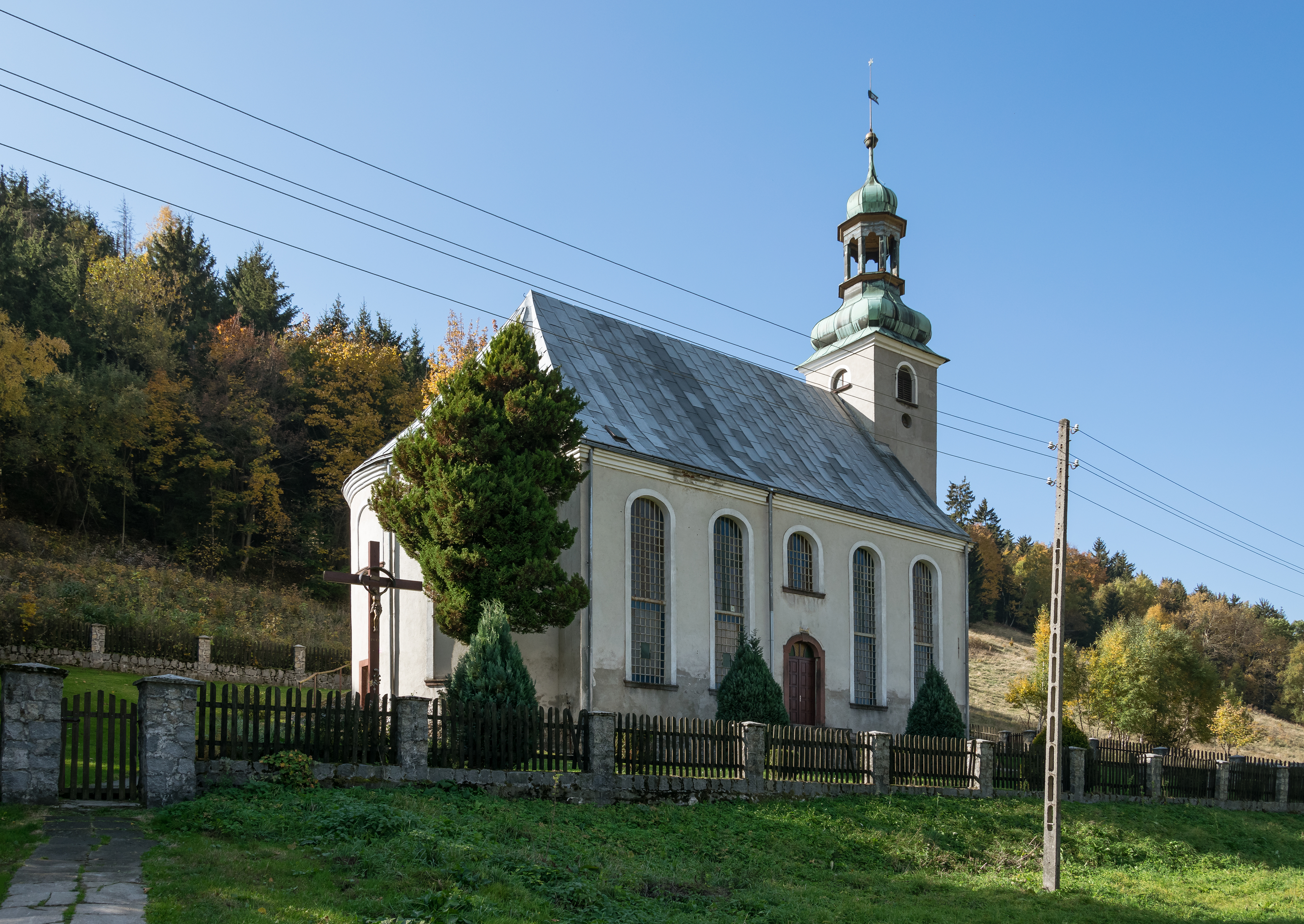 Maximilian Kolbe church in Rzeczka Wikidata has entry Q30083174 with data related to this item.